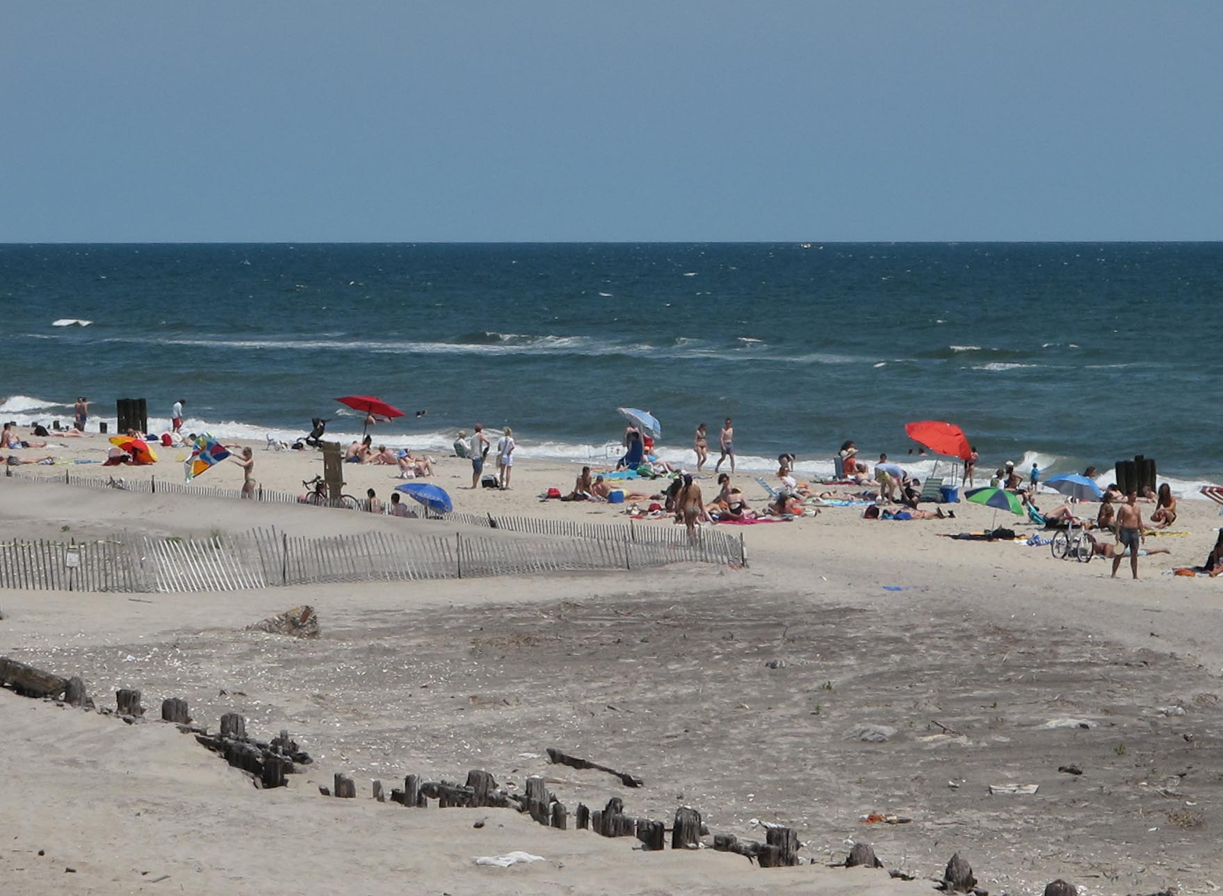 A view of the beach at Fort Tilden, Gateway National Recreation Area, Queens, NYC